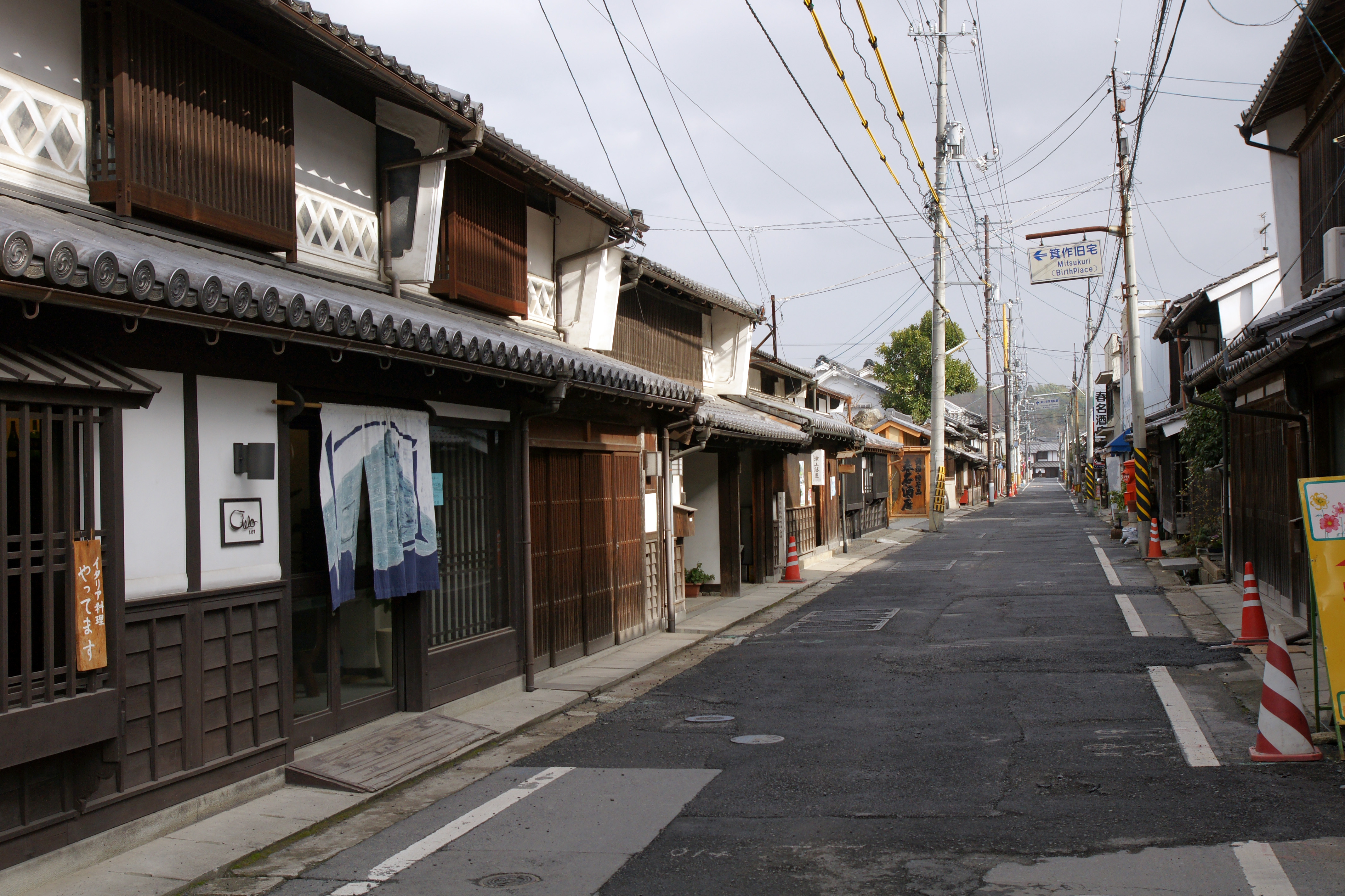 The Old Joto Area in Tsuyama, Okayama prefecture, Japan.